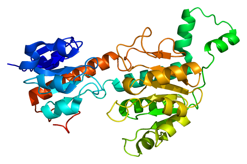 Structure of the CTBP1 protein. Based on PyMOL rendering of PDB 1hku.